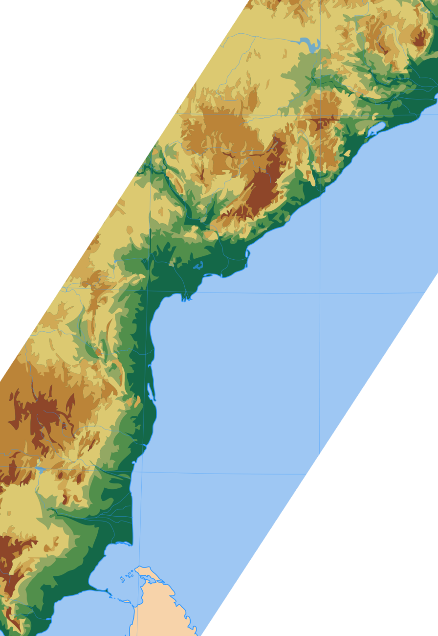 Crop of the Eastern Ghats